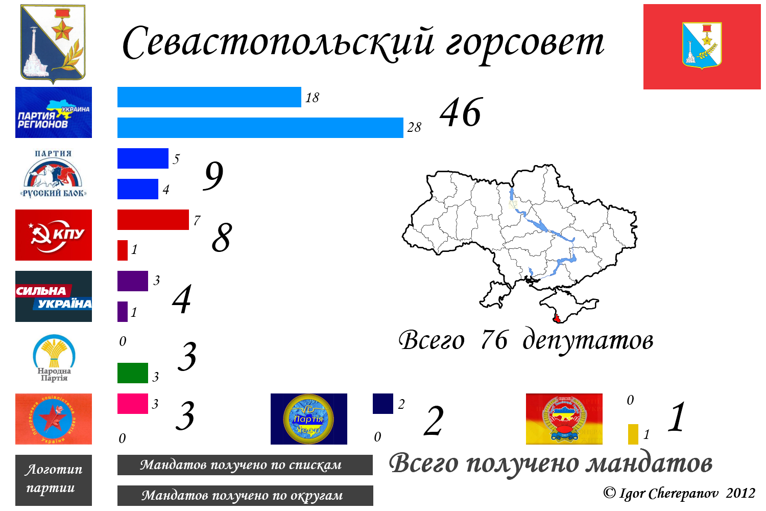 Results of Sevastopol Oblast local election 2010